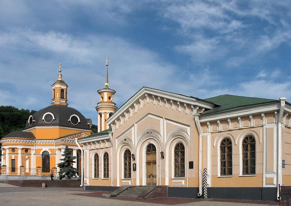 View of the Poshtova Square in the Podil neighbourhood in Kiev.